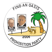 2004 campaign button for Gene Amondson